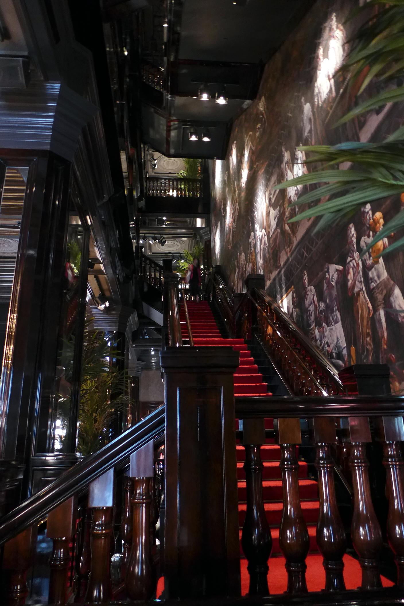 Pedder Building Stairs inside A&F